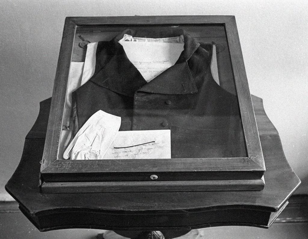 “Vest Pushkin Wore during his Duel”. The vest which Alexander Pushkin wore during his duel is preserved at his memorial apartment museum in St. Petersburg.